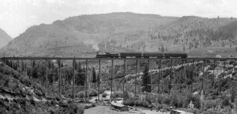 Train going over the Maroon Creek Bridge, Aspen, CO, USA